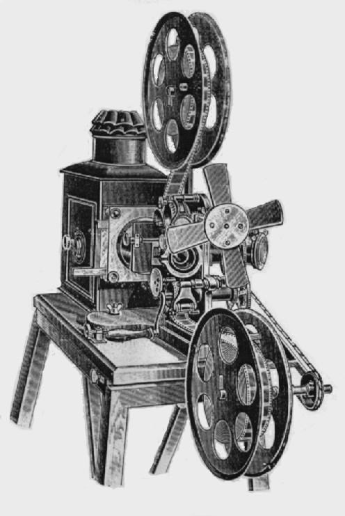 'Warwick Bioscope' c.1900 (also known as 'Urban Bioscope') film projector and movie camera developed by Walter Isaacs in 1897 for Charles Urban of the Warwick Trading Company than sold in Britain. The projector used a beater movement.